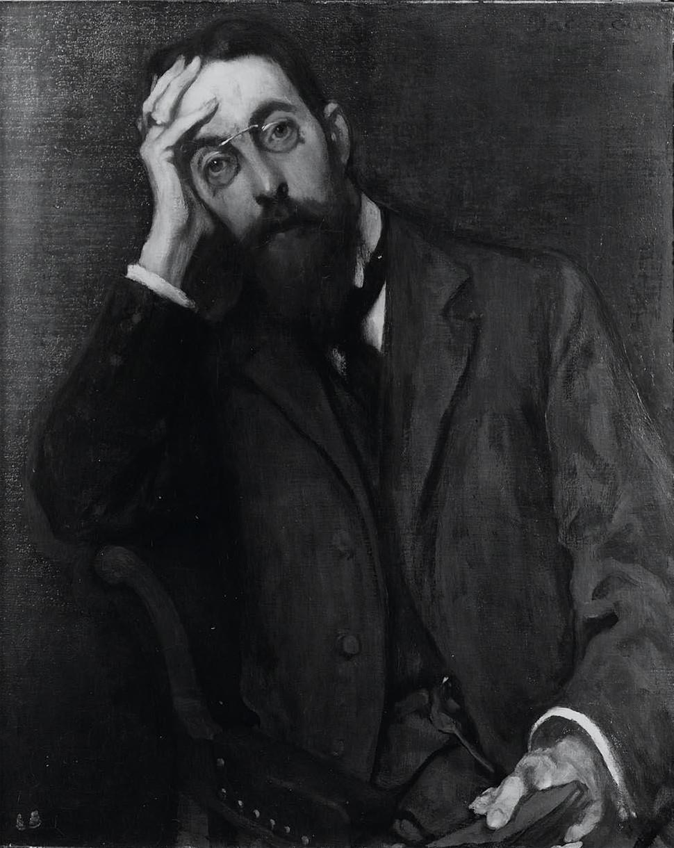 Portret van Herman Robbers, oil on canvasmedium QS:P186,Q296955;P186,Q12321255,P518,Q861259